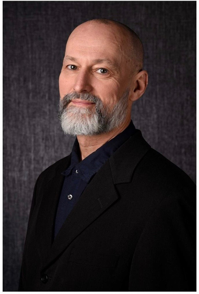 Zoran Alagic (1962-)